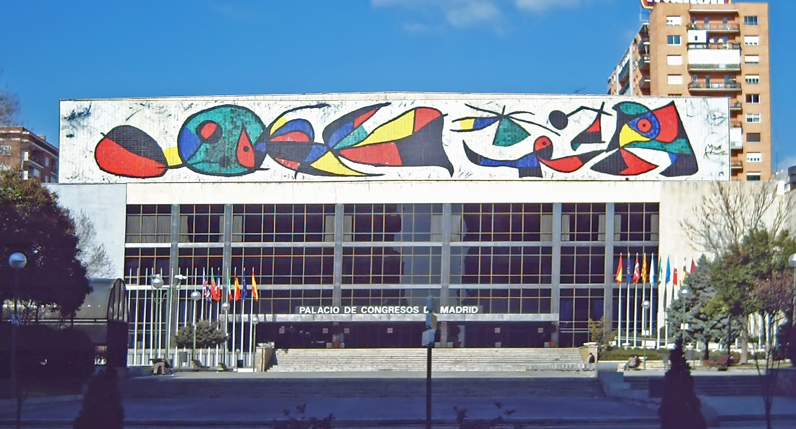 Palacio de Congresos y Exposiciones. Convention centre in Madrid (Spain). Projected by architect Pablo Pintado Riba and built from 1965 to 1970. Mural was made in 1980 by Joan Miró (1893–1983).